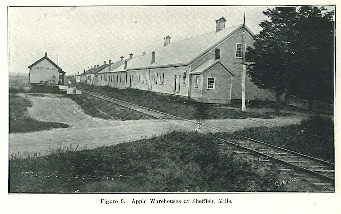 Sheffield Mills, Nova Scotia, Canada circa 1930, a typical stop on the Dominion Atlantic Railway with a small station and giant apple warehouses. The photograph was taken by Edson Graham published in the book Some Economic Aspects of the Apple Industry in Nova Scotia by Willard Longley.